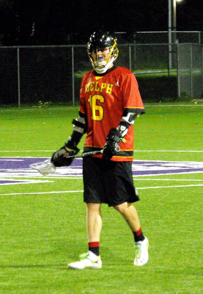 These are images of CUFLA action during the 2014 season and are taken by Devan Mighton.